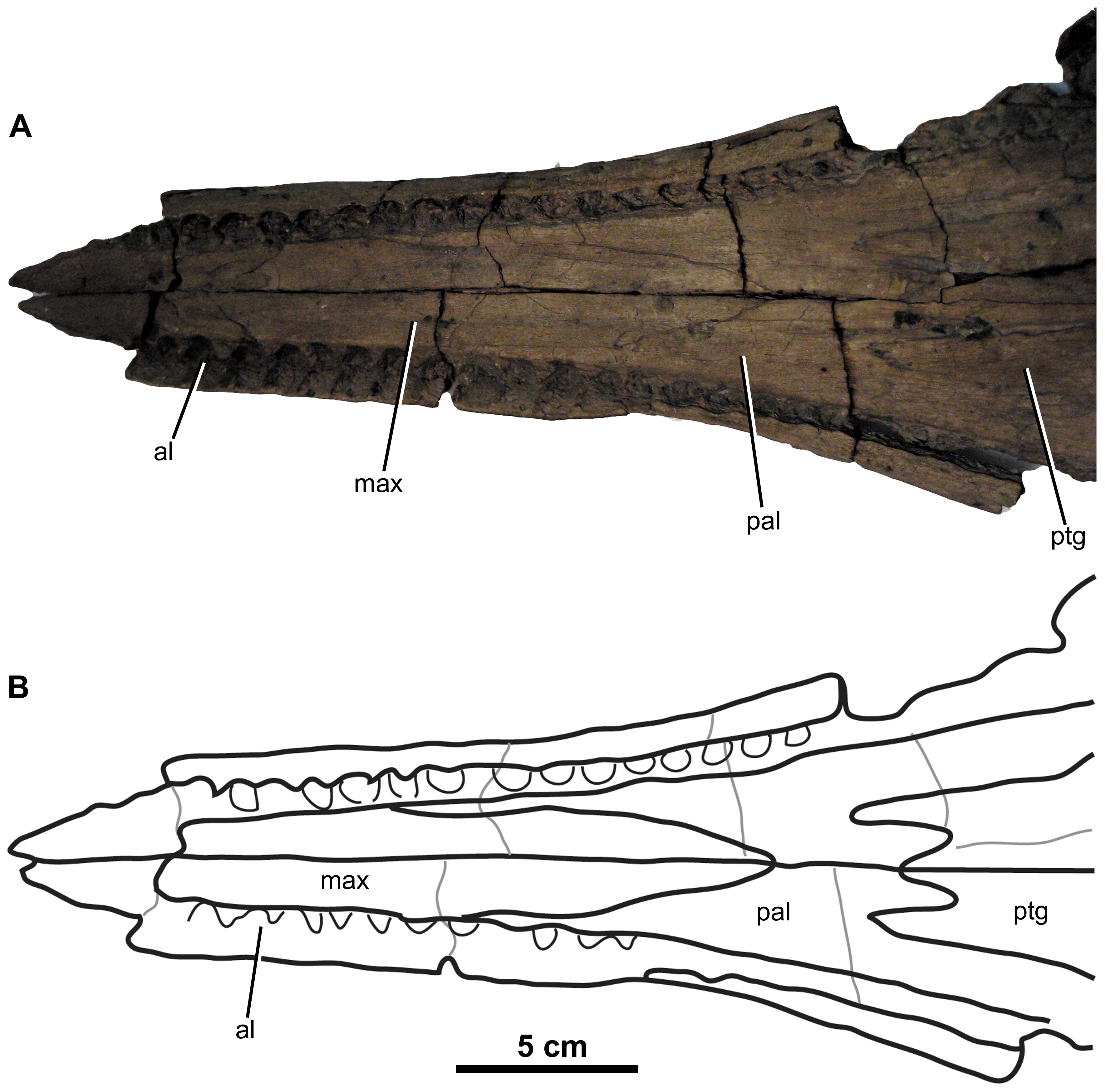 Gracilineustes leedsi, holotype NHMUK PV R3540. Snout in ventral (palatal) view, (A) photograph and (B) line drawing (thin grey lines represent breaks). Abbreviations: al, alveolus; max, maxilla; pal, palatine; ptg, pterygoid.